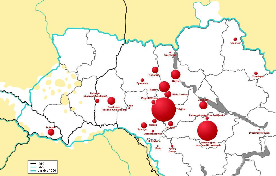 Location of selected pogroms of Ukrainian Jews in the years 1918-1920, taking into account the number of victims. Black: 1919 borders. Green: actual borders (since 1991). Blue: actual ukrainian border. White: ukrainian inhabitants. Infographic made on the basis of the table at the address